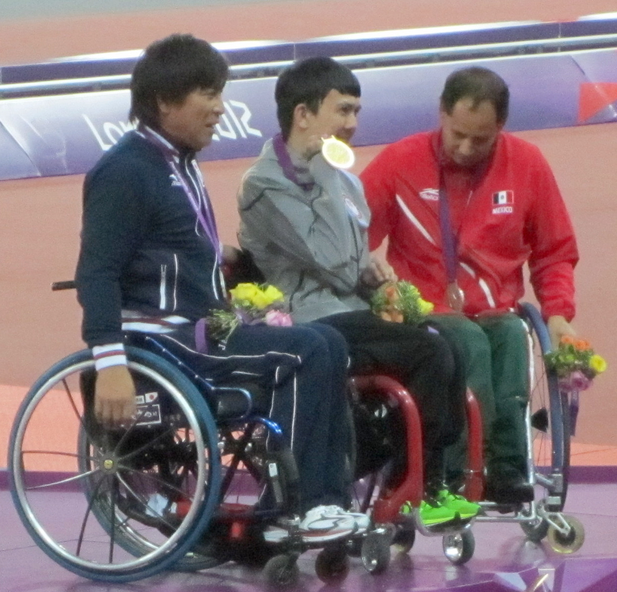 Gold: Raymond Martin (USA); Silver: Ito Tomoya (Japan): Bronze: Salvador Hernandez Mondrago (Mexico)